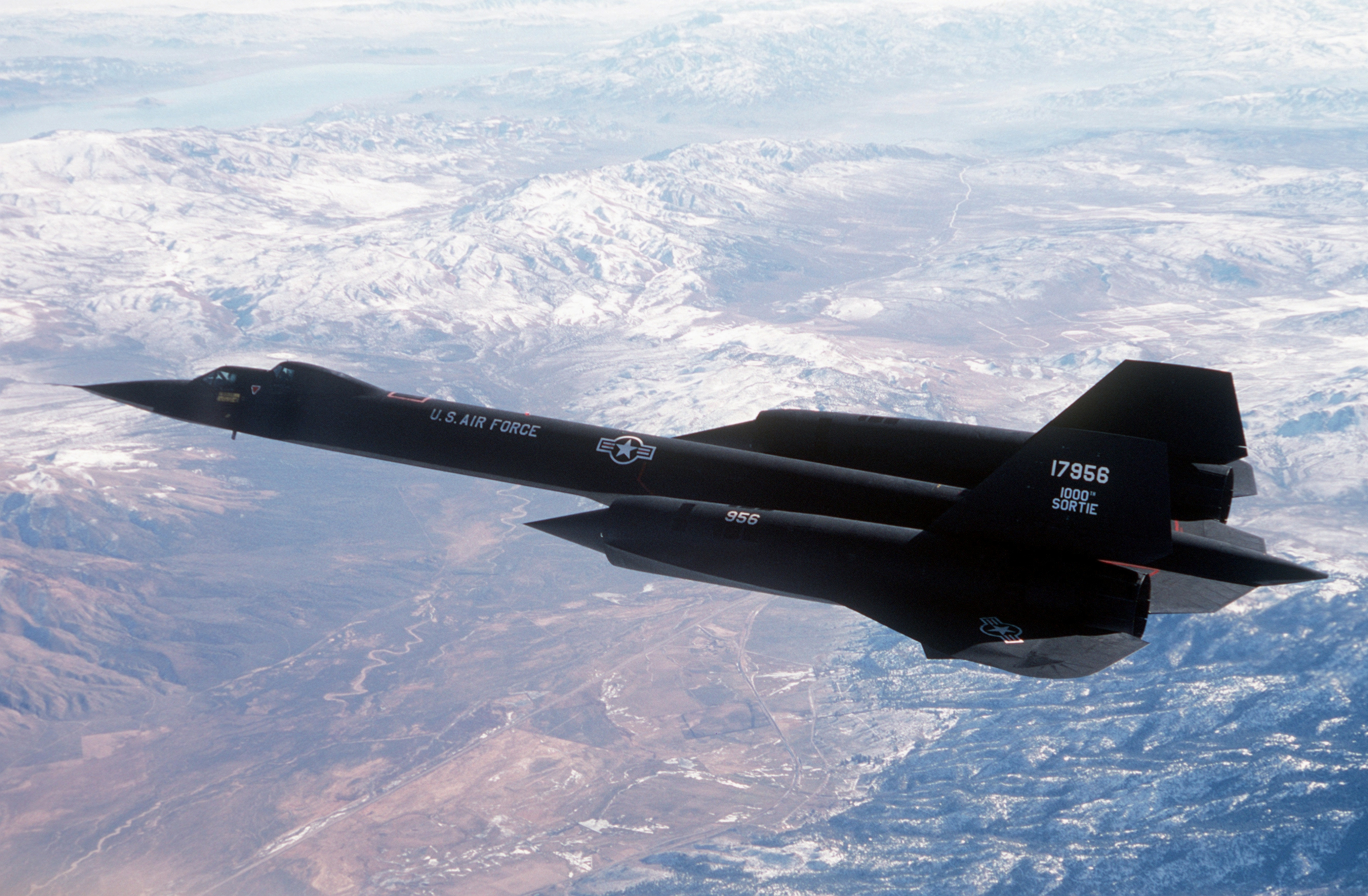 A U.S. Air Force Lockheed SR-71B Blackbird (s/n 61-7956) during its 1,000th sortie near Beale Air Force Base, California (USA). This aircraft was one of two SR-71B trainers built. The other one crashed in 1968. 61-7956 is on display at Kalamazoo Aviation History Museum, Michigan (USA), since 2007.